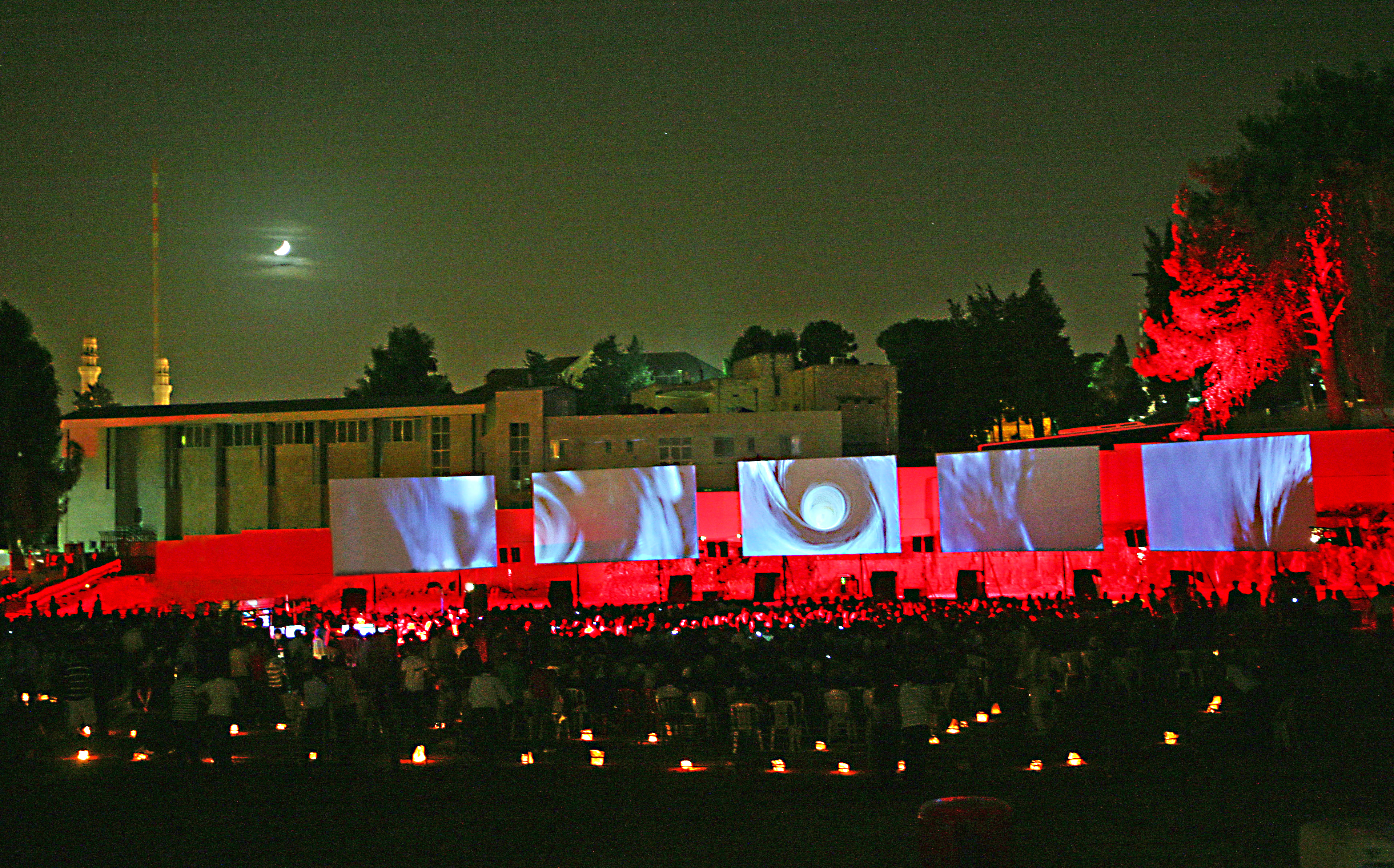 Performance of Identity of the Soul, West Bank Tour, Ramallah